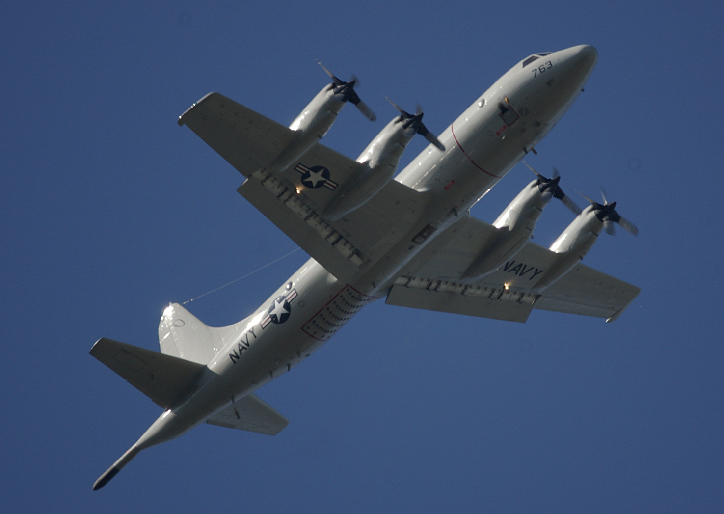 An underside view of a P-3C "Orion" submarine-hunter airplane in flight, showing the magnetic anomaly detector (the boom at the rear of the airplane) and the sonar buoy launchers (the grid of dark spots towards the rear).